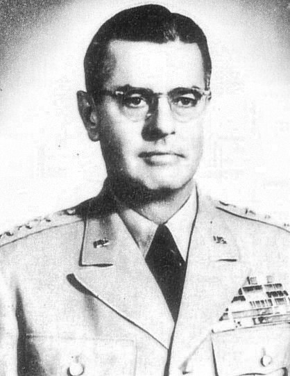 Lt. Gen. James Edward Moore